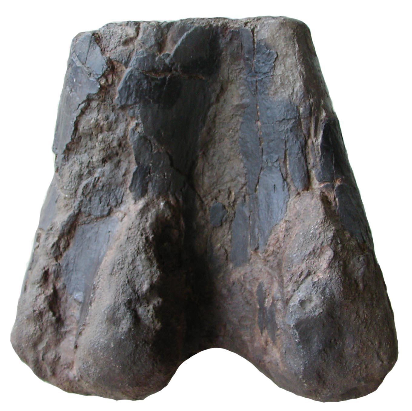 First discovery of dinosaur bone in Phu Wiang National Park in 1976 by Sutham Yaemniyom, Wiang Kao district, Khon Kaen, Thailand